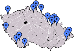 Map of the highest mountains of geomorphological regions of the Czech Republic.